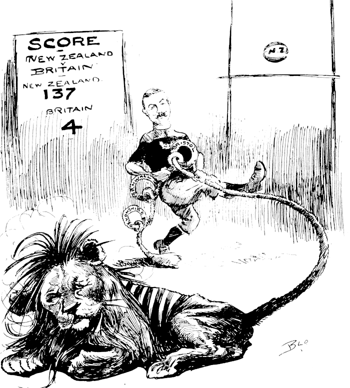 Caption: "Beating him at his own game. New Zealand footballer: Aha, I'll have to give the tail of the British Lion another twist to stir him up. And they said England was the home of Rugby Football." Caption depicts Dave Gallaher, the captain of the New Zealand rugby union team that was touring Britain and Ireland at the time, twisting the tail of a lion -- which itself represents British rugby. Gallaher's team eventually won 31 or their 32 matches in the British Isles. This cartoon depicts the "score" after their first three matches (see The Original All Blacks), where they defeated Devon, Cornwall and Bristol.